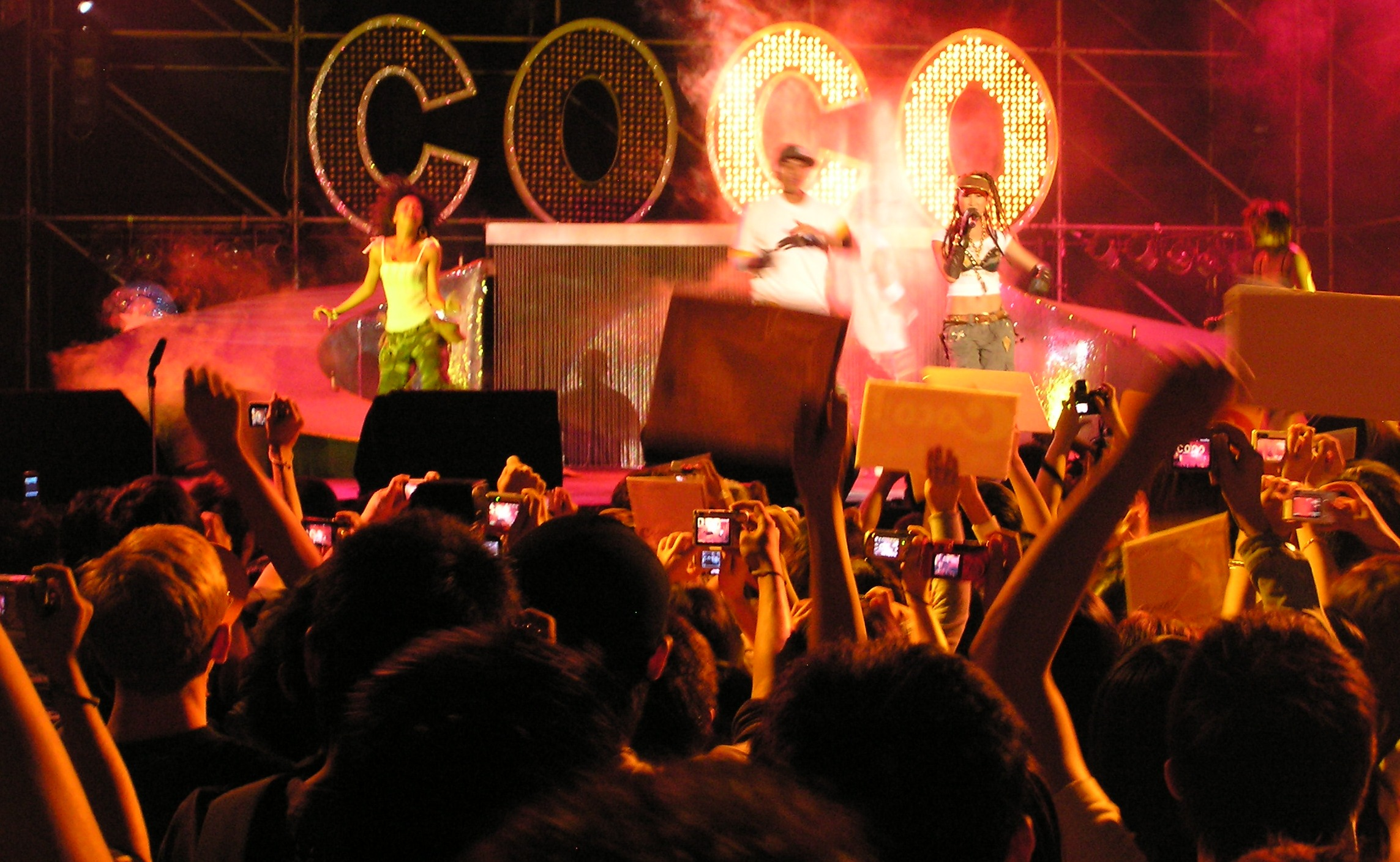 Coco Lee (third from left) performs her new single, "Hip Hop Tonight," at a street concert in Taipei, Taiwan, September 16, 2006. Photo by John Northup.